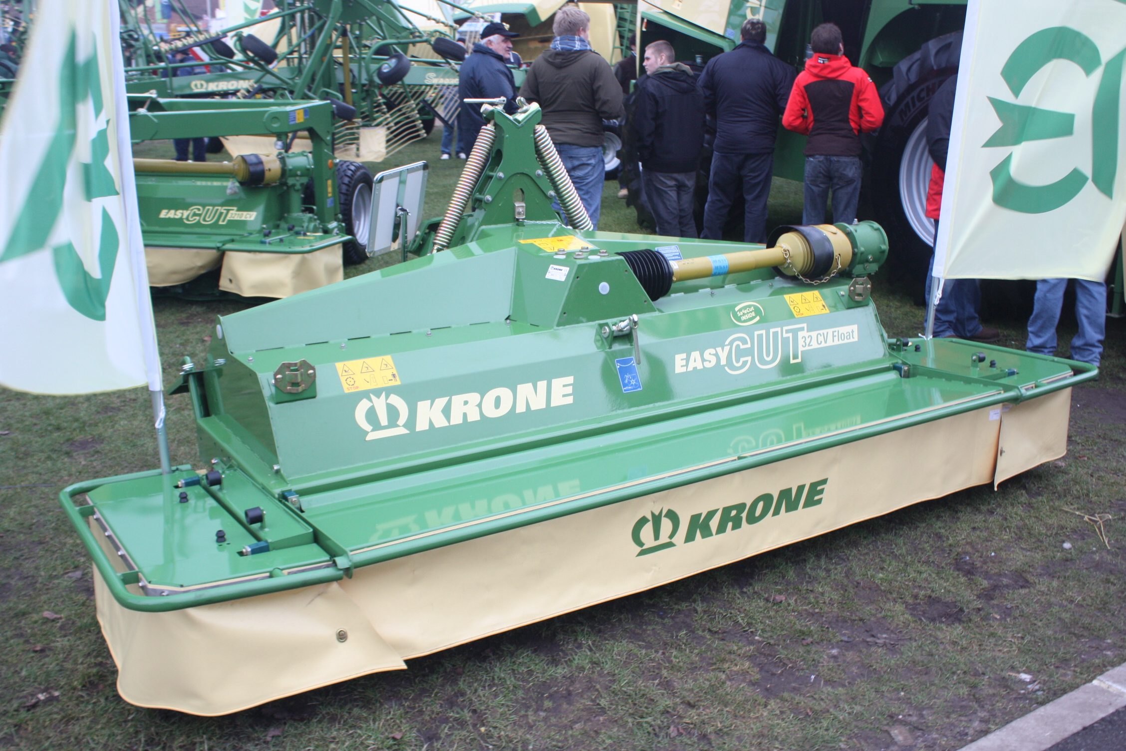 A three-point linkage mounted Krone EasyCut 32 CV Float mower at LAMMA Show 2010 (Lincolnshire Agricultural Machinery Manufacturers Association Show), England